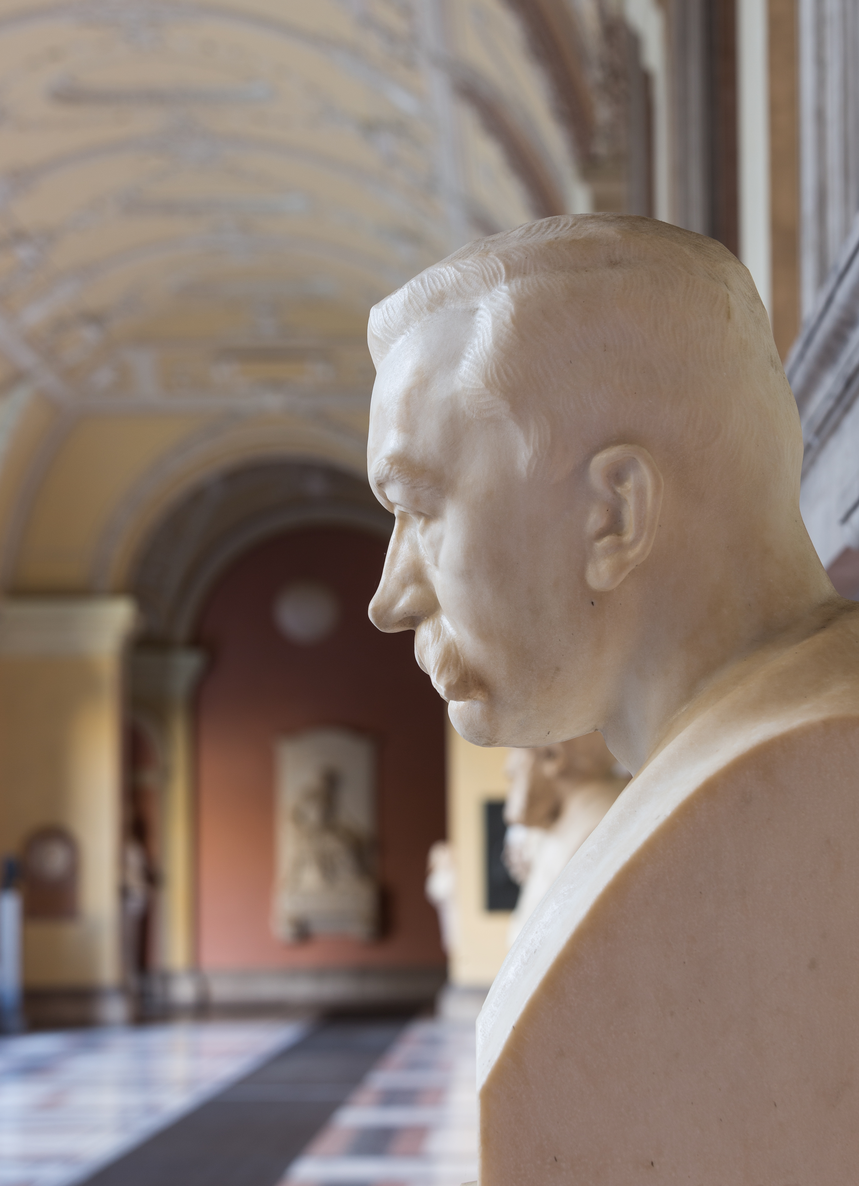 Edmund von Neusser (1852-1912), bust (marble) in the Arkadenhof of the University of Vienna, (Maisel# 74). Artist: Heinrich Karl Scholz (1880-1937), unveiled 1928